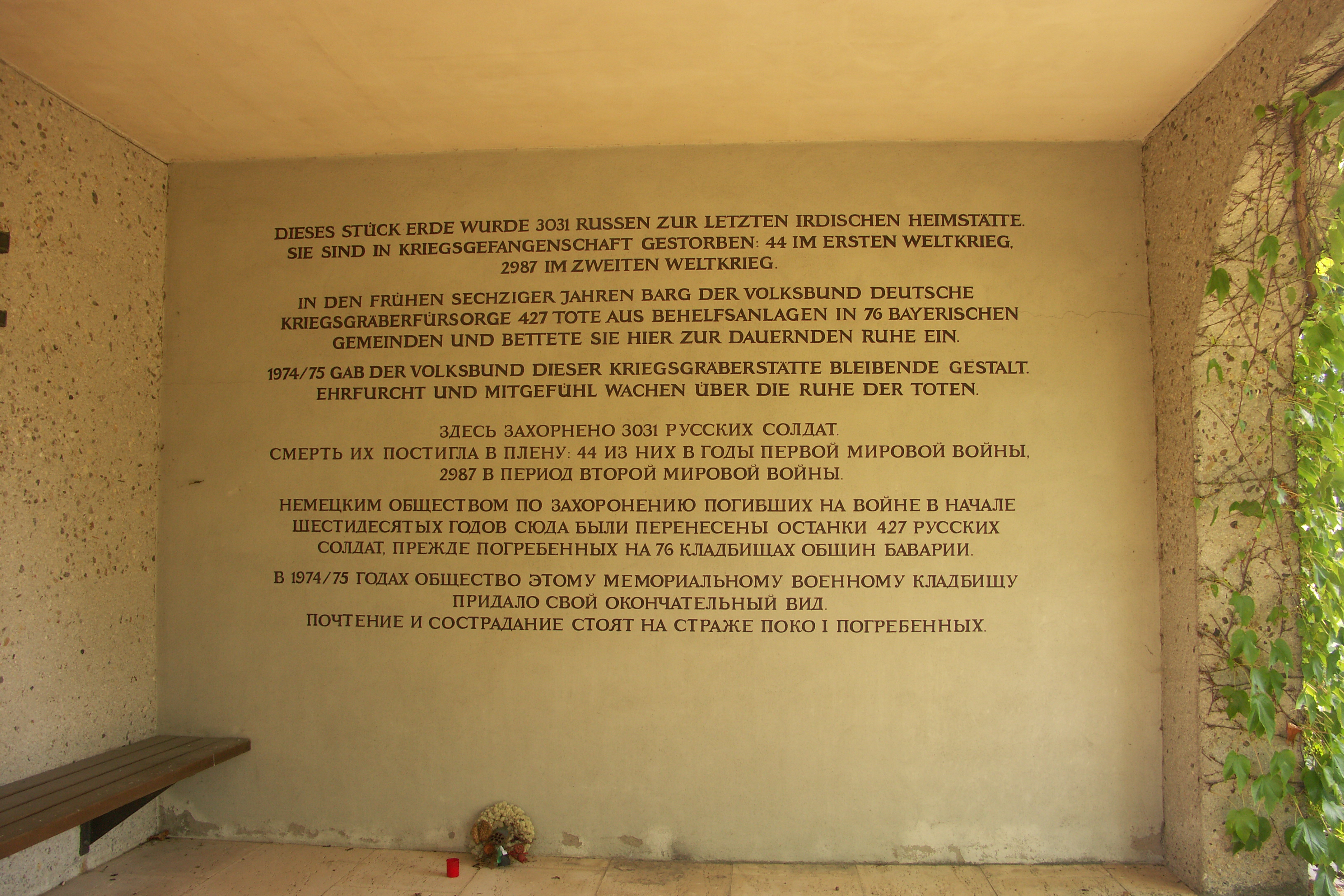 Концентрационный лагерь Хаммельбург